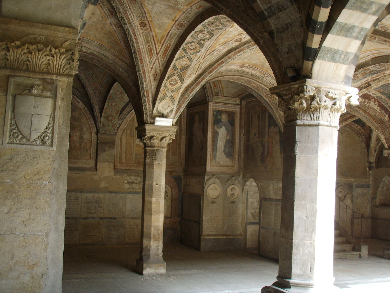 San Maria Novella church, little cloister in Florence, Italy